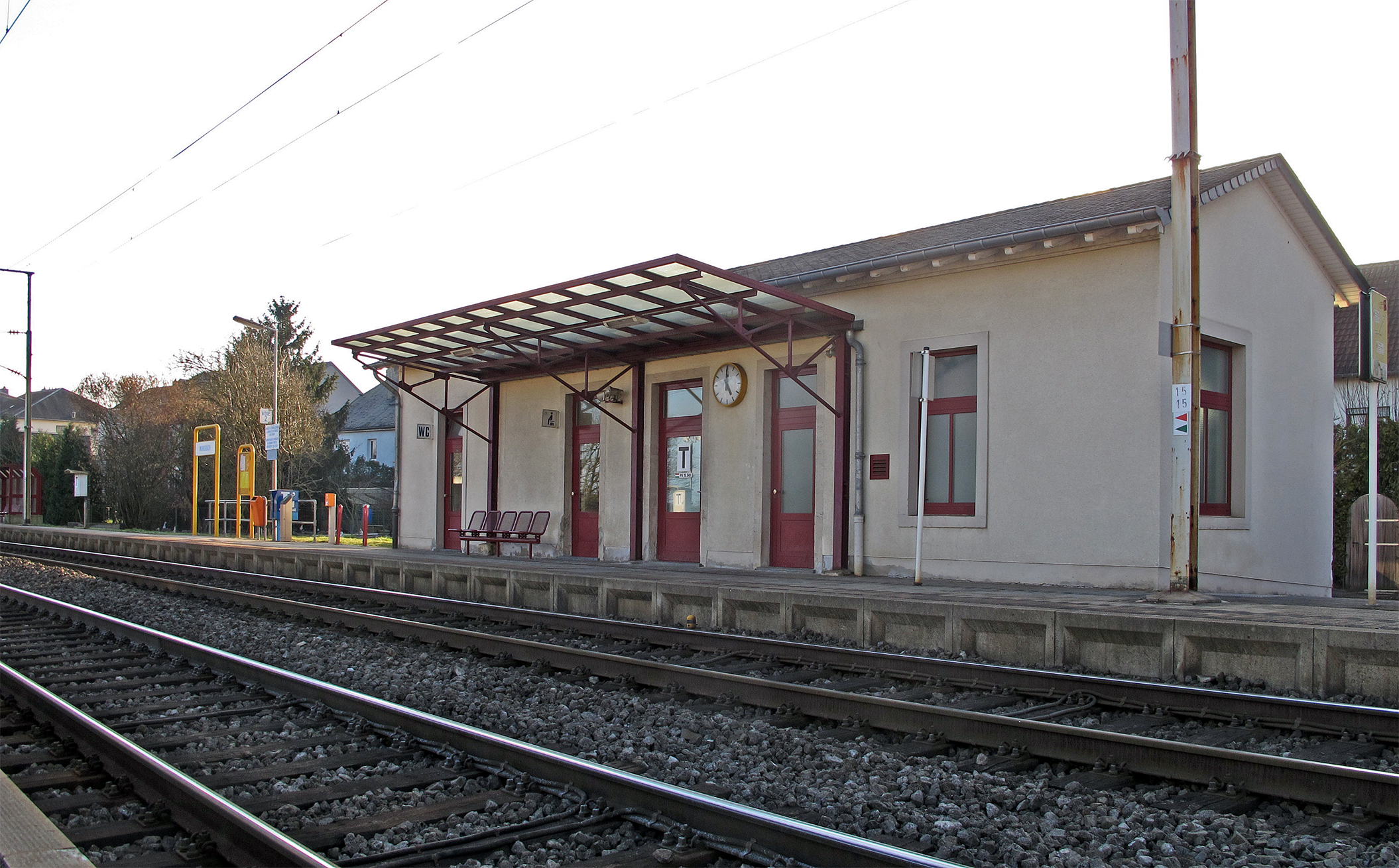 Railway station of Munsbach, Luxembourg